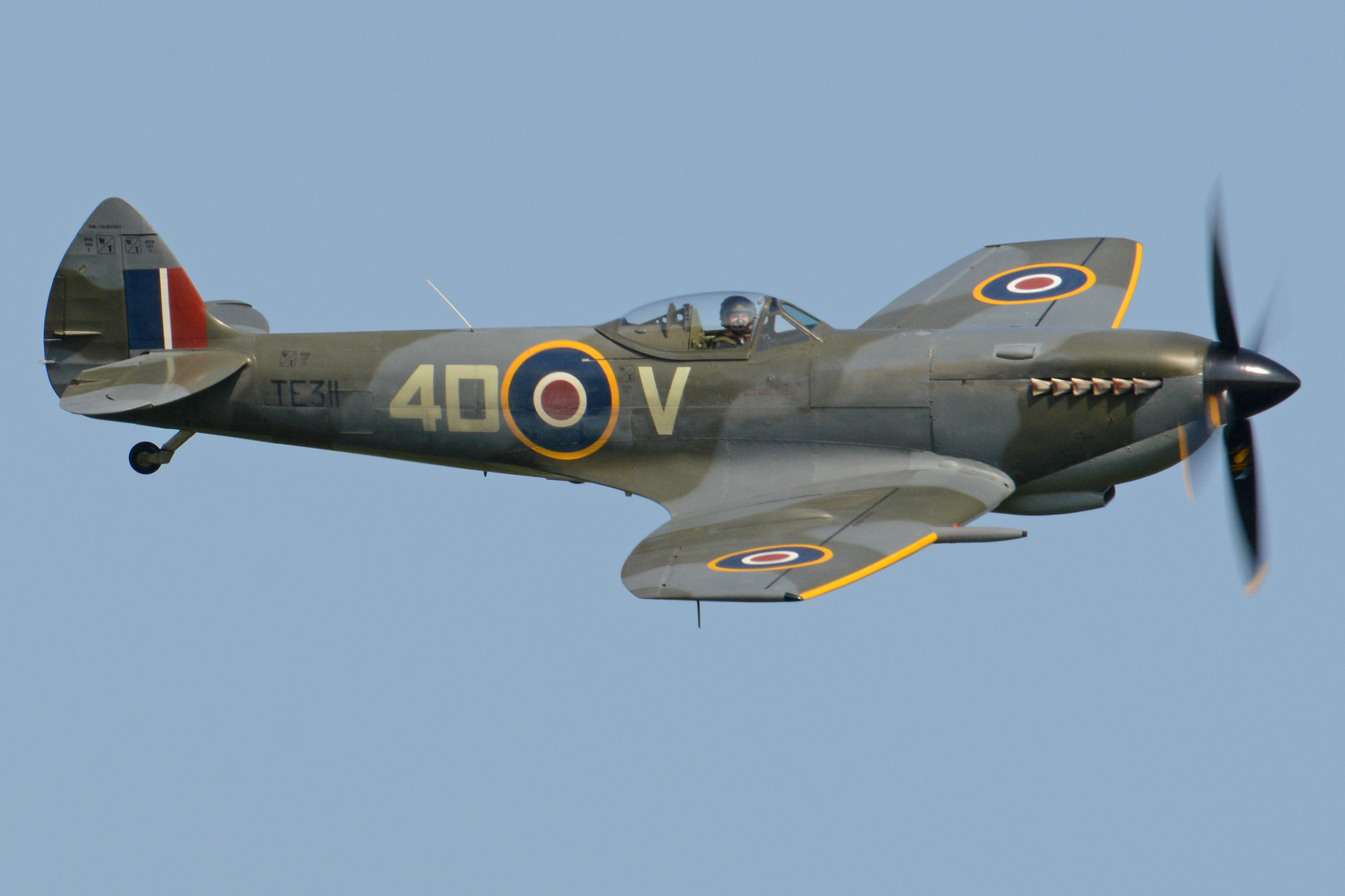 c/n CBAF.IX4497. Having spent some 30 years being roaded around the country to shows and events by the RAF Exhibition Flight, few would have ever expected to see this Spit fly again. However...... Restored at RAF Coningsby, initially by volunteers, she is now operated as part of the RAF Battle of Britain Memorial Flight (BBMF). She wears the markings of a 74sqn aeroplane (TB675) which was the personal aircraft of Squadron Leader AJ ‘Tony’ Reeves DFC, the Squadron’s Commanding Officer from the end of December 1944. She is seen displaying at the ‘Fly Navy’ airshow, Old Warden, Bedfordshire. 5th June 2016